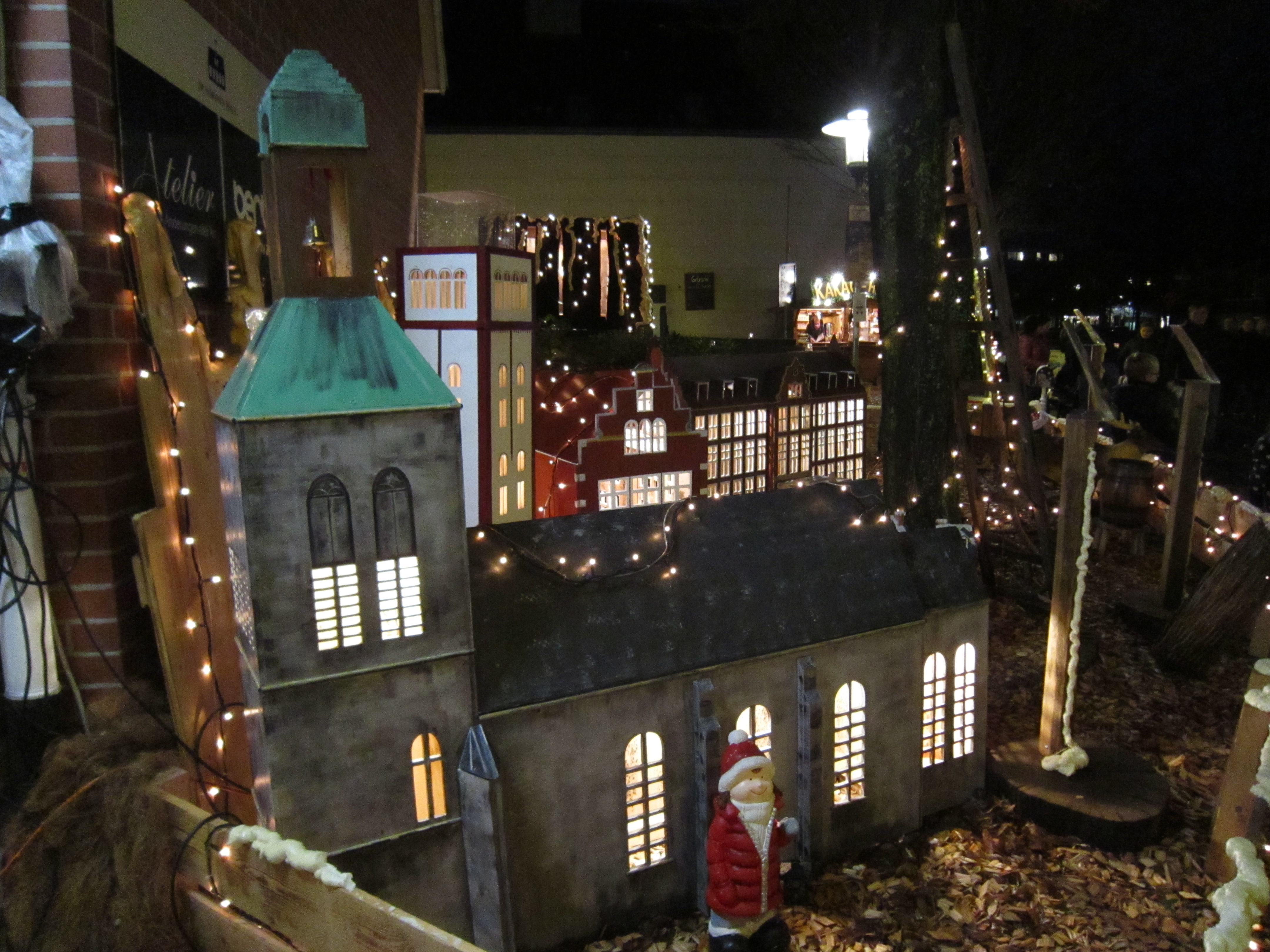 "Weihnachtsdorf" (christmas village) with buildings en miniature on the christmas market in the centre of Nordhorn